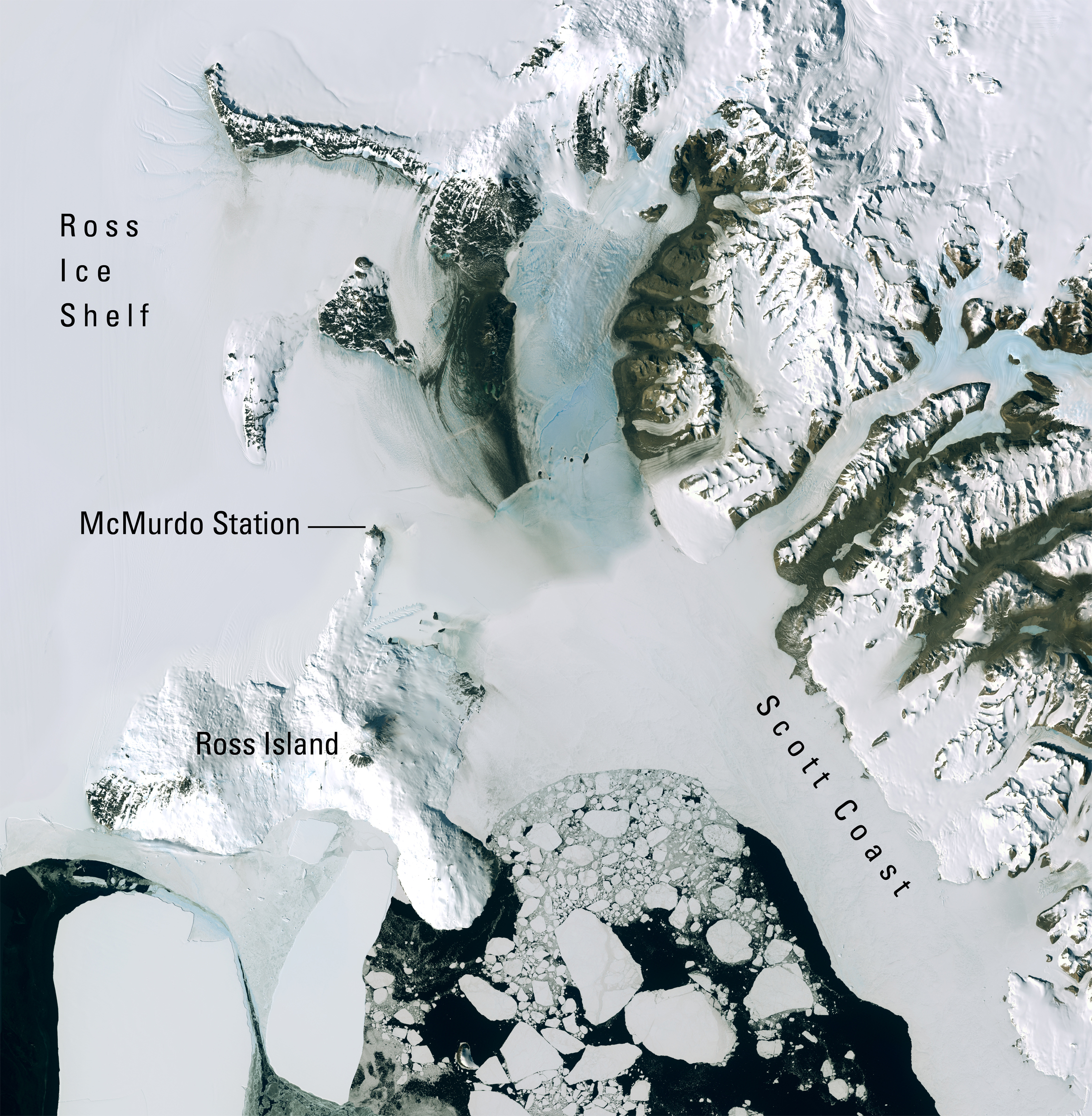 High Resolution image of McMurdo Station